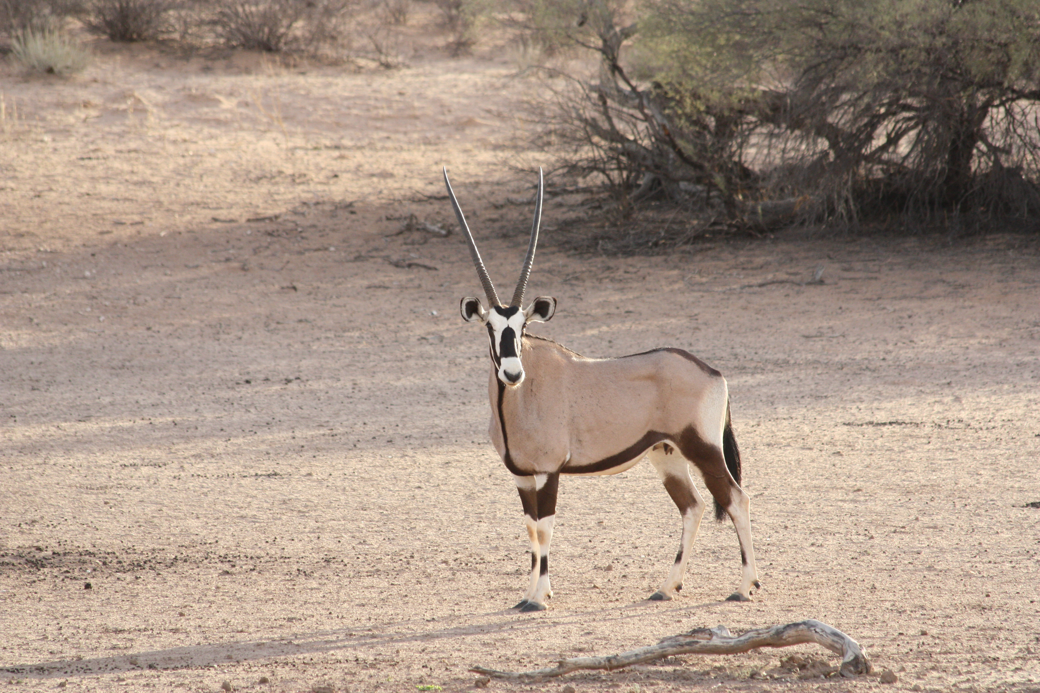 Gembok (Oryx gazella), just outside Urikaruus camp in the Kgalagadi Transfrontier Park